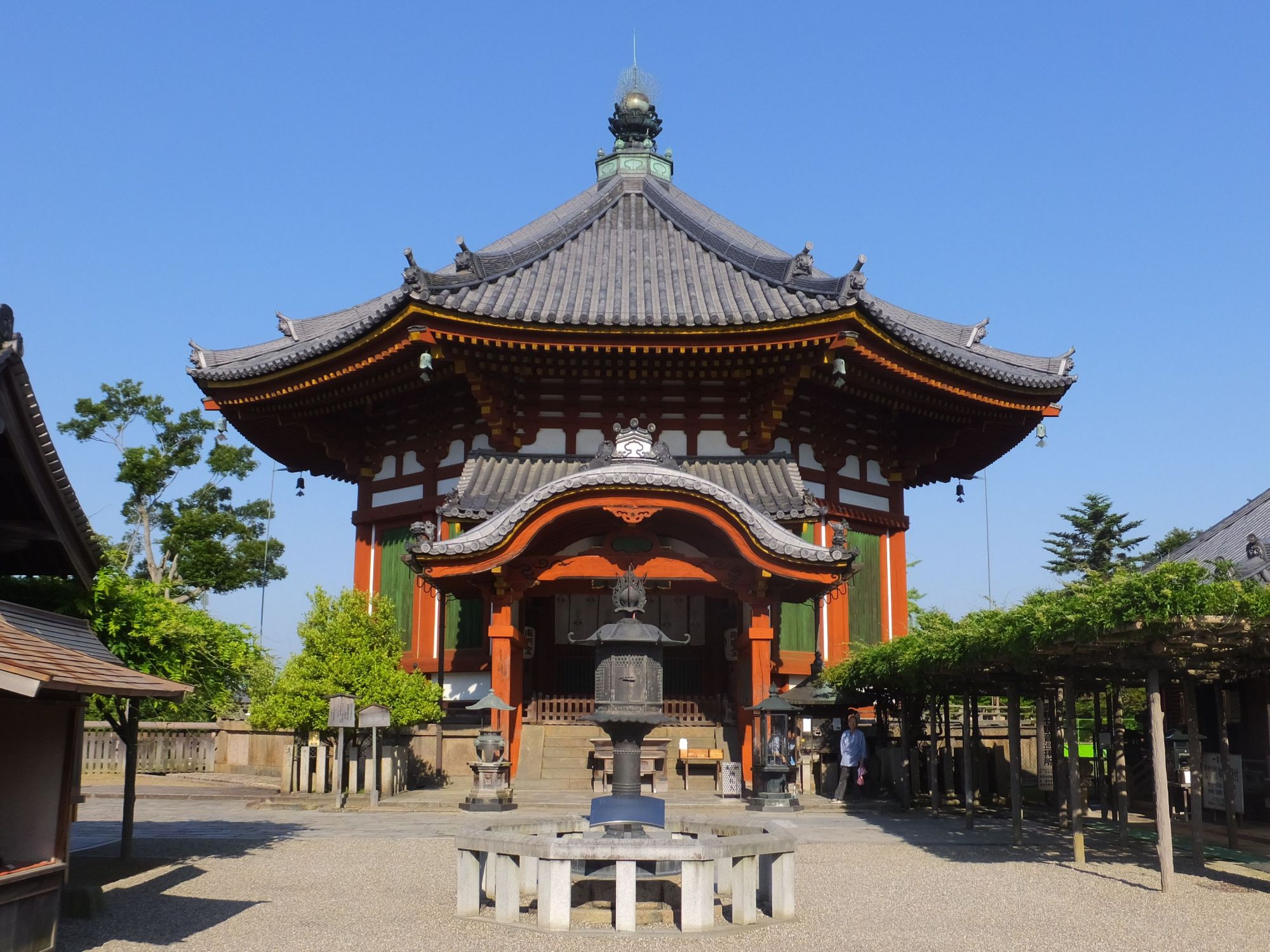 Nan'endō (South Octagonal Hall) of Kōfuku-ji temple in Nara, Nara prefecture